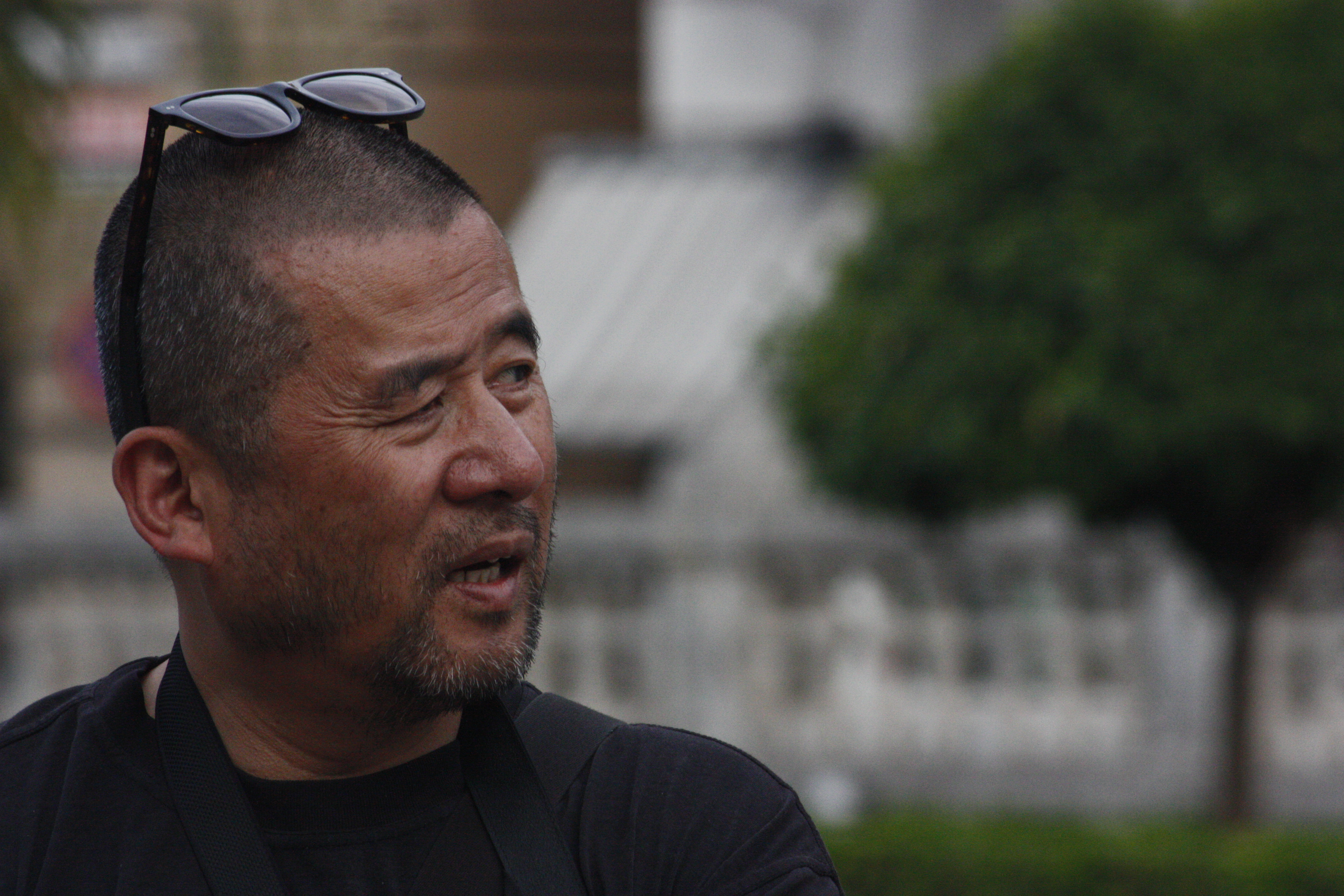 A photo of the Chinese contemporary artist Zhang Peili